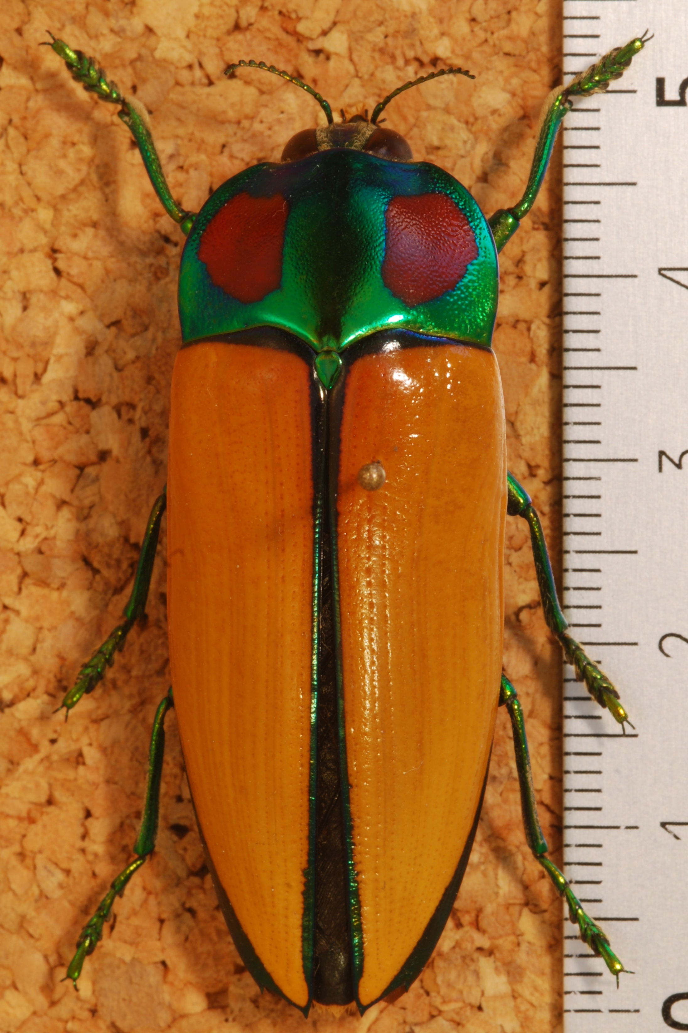 Pasea, Morobe Province, PAPUA NEW GUINEA